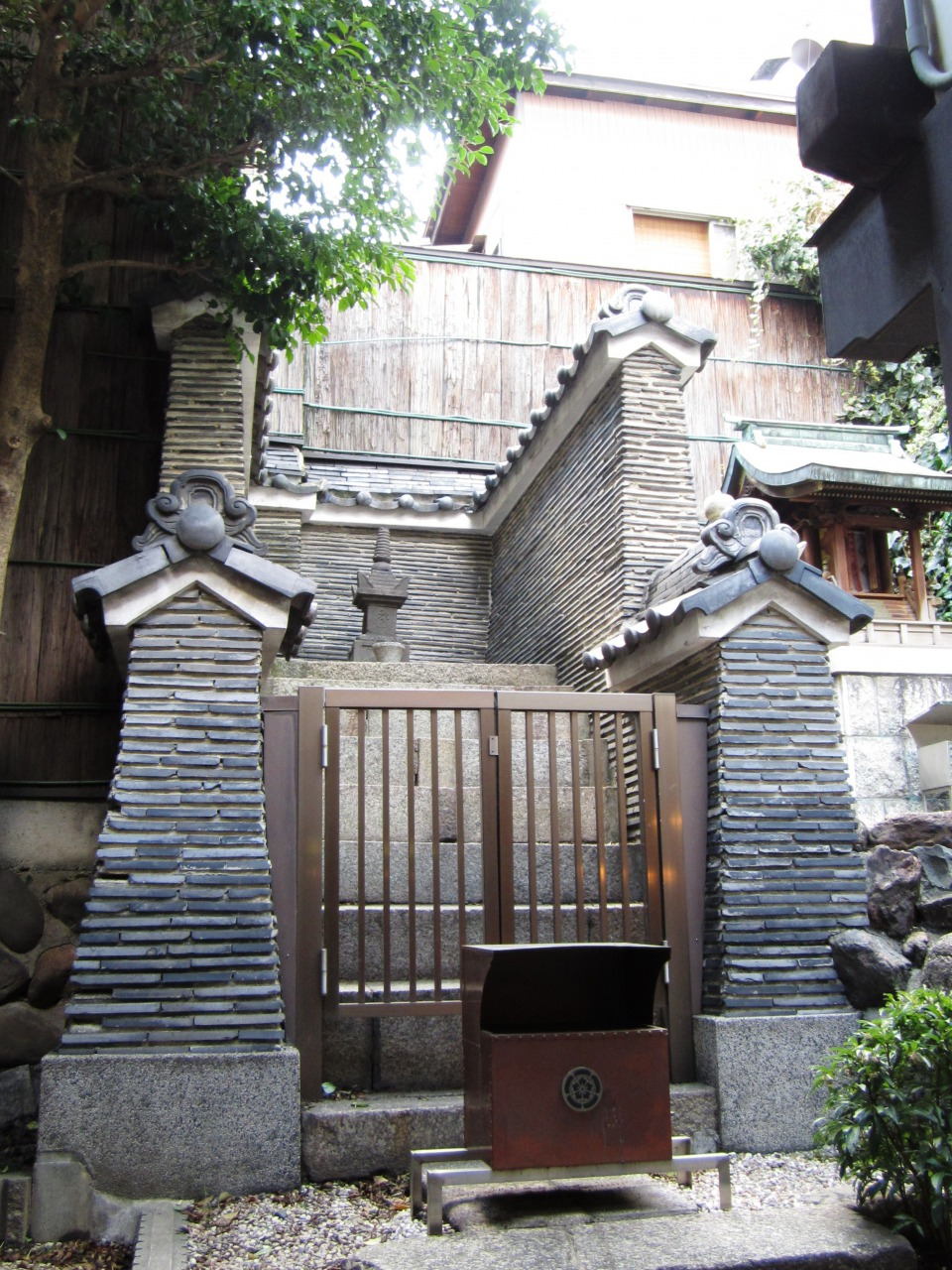 The grave of Oda Nobuhide at Banshō-ji in Nagoya, Aichi.